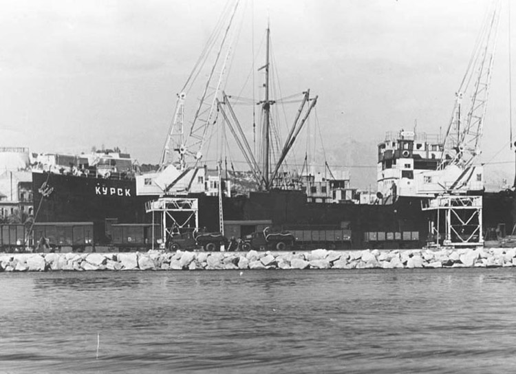 Soviet vessel "Kursk" carrying military supplies for the spanish republican forces in port of Alicante